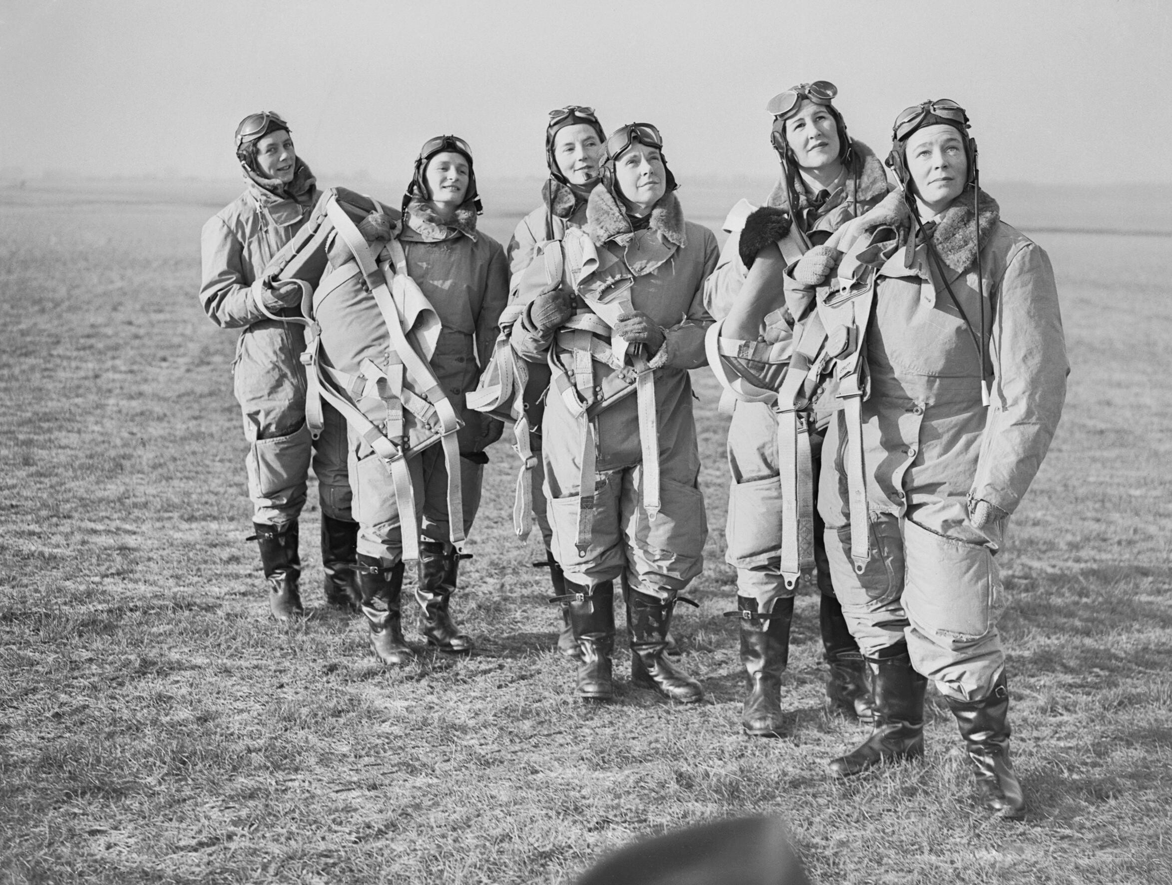 Women pilots of the Air Transport Auxiliary (ATA) in flying kit at Hatfield, 10 January 1940. Air Transport Auxiliary (ATA): A group of women pilots of the ATA service photographed in their flying kit at Hatfield.